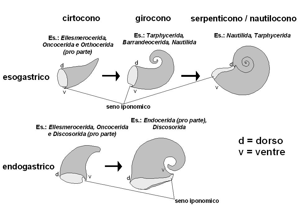 main evolutionary trends of shell coiling in Nautiloids. text in italian